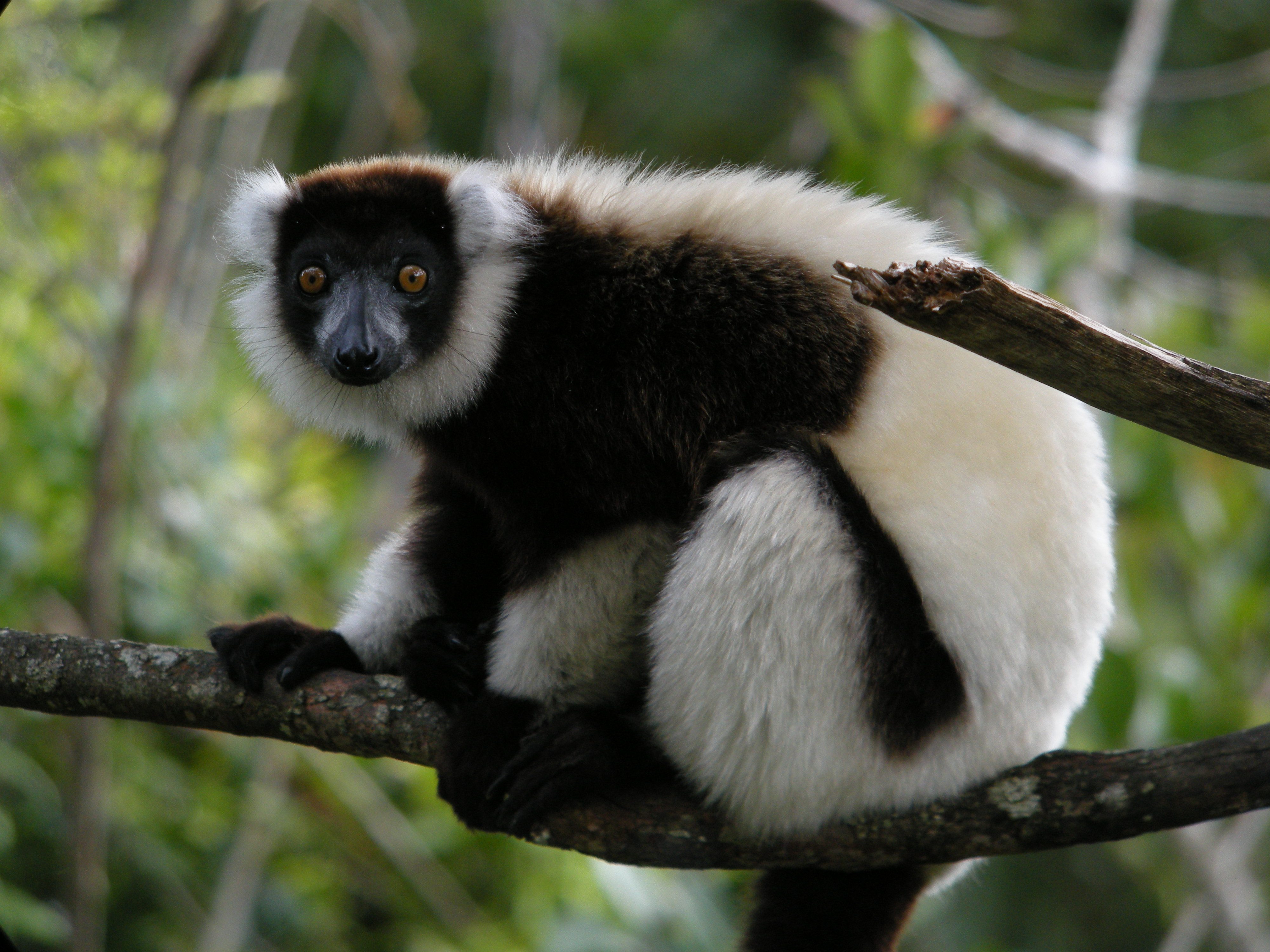 Black-and-White Ruffed Lemur, Mantadia, Madagascar Swarowski 80 HD 30 X, Coolpix P5100 (Adapter DCB)